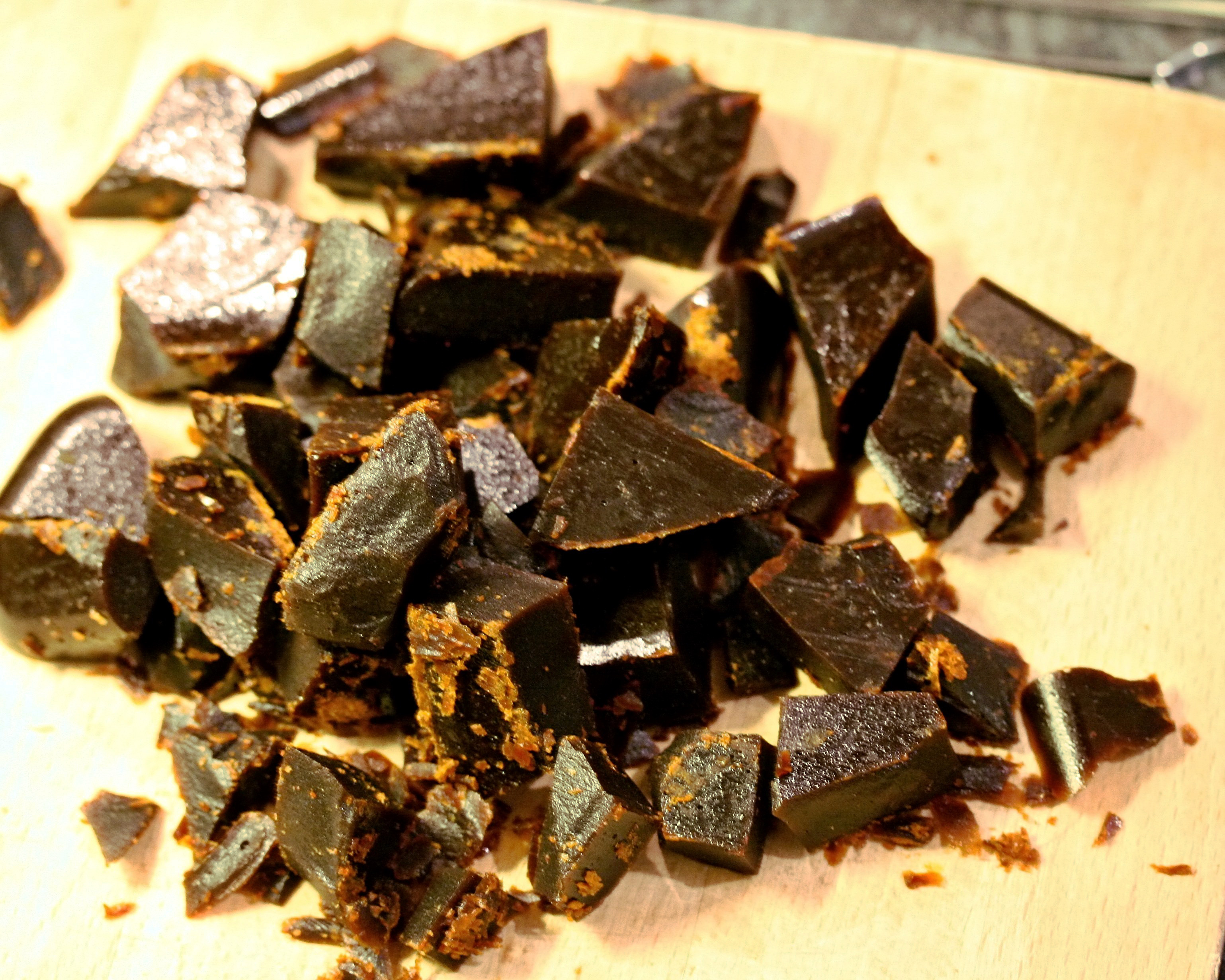 Home made seasonal confectionery with the minimum of effort! Yay!